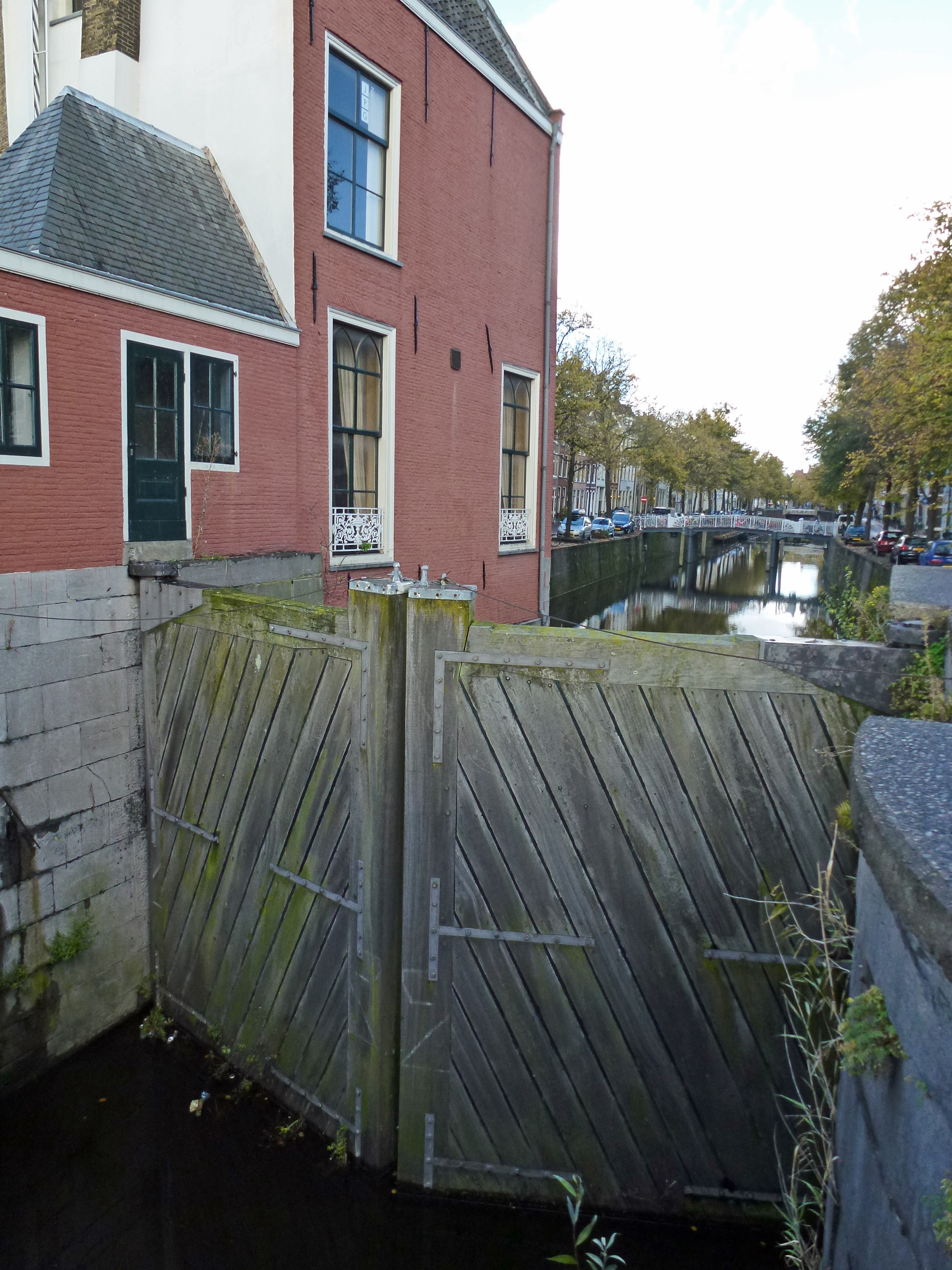 Lock dated 1615 in Gouda NL